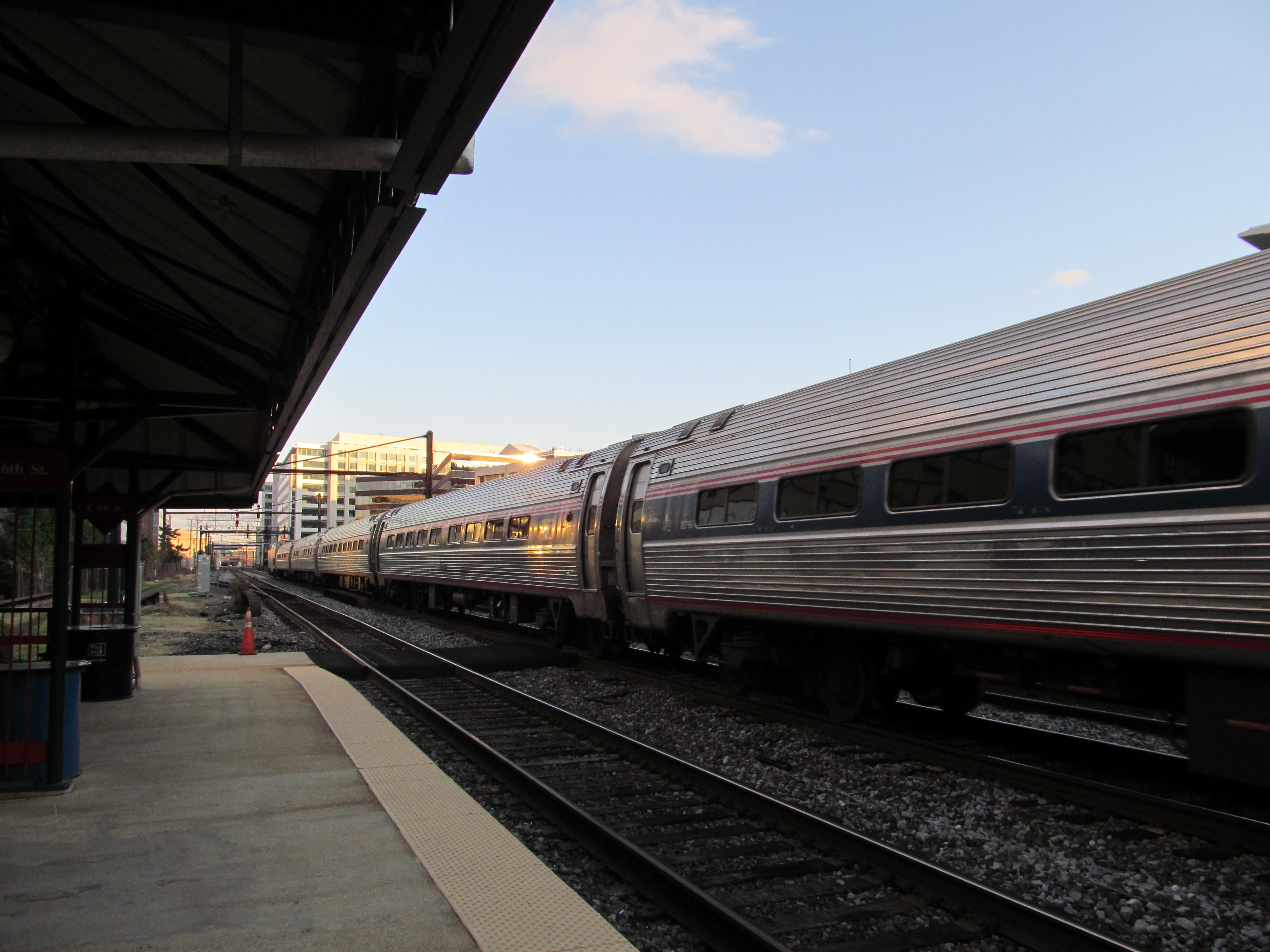 The northbound Carolinian passing L'Enfant Plaza station in December 2011